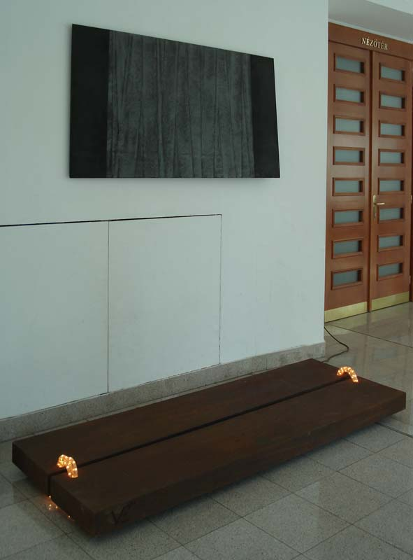 On an Exhibition of Éva Varga (2009 May), House of Arts, Miskolc, Hungary